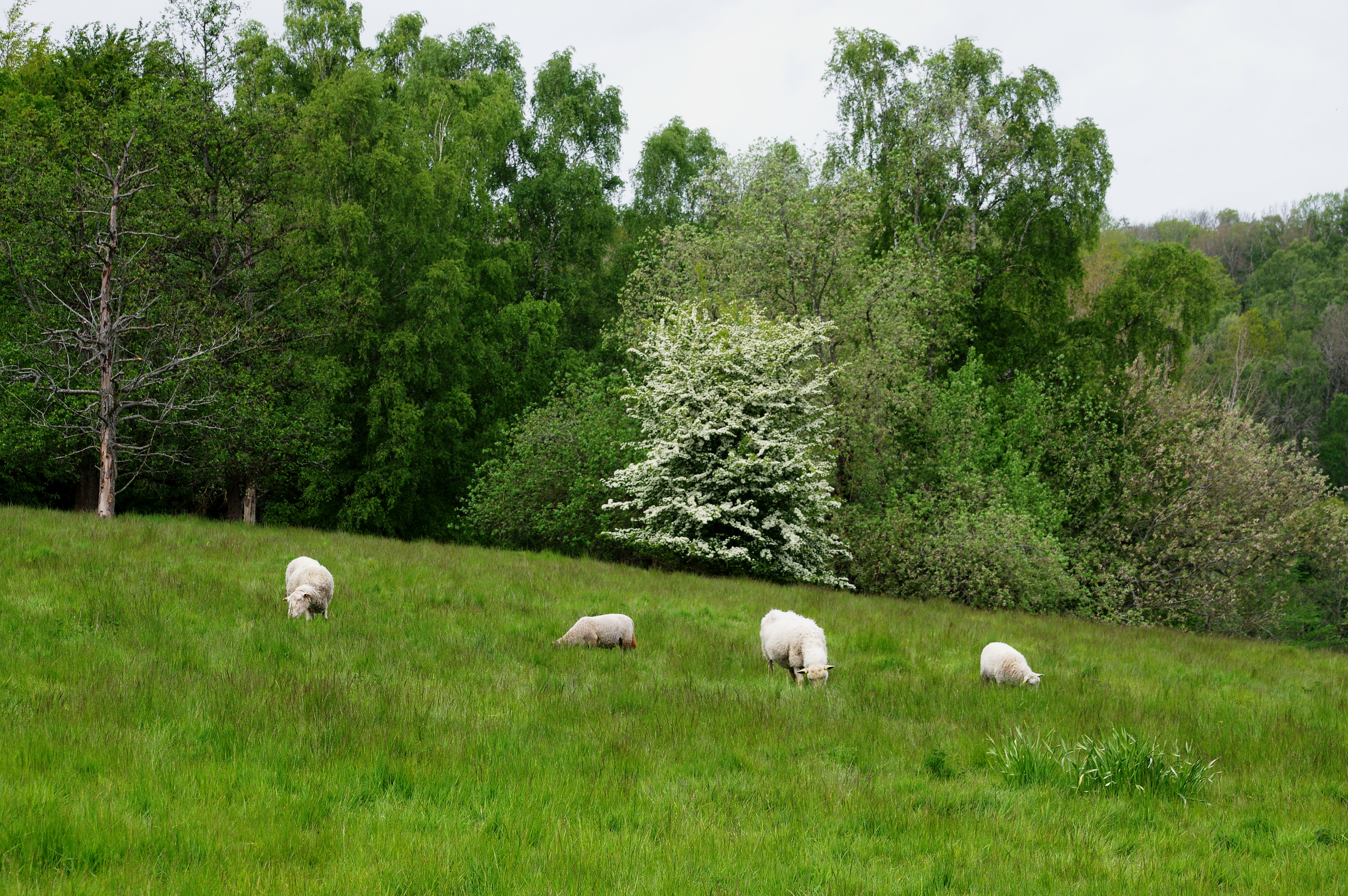 Borgen natural reserve, Pasture